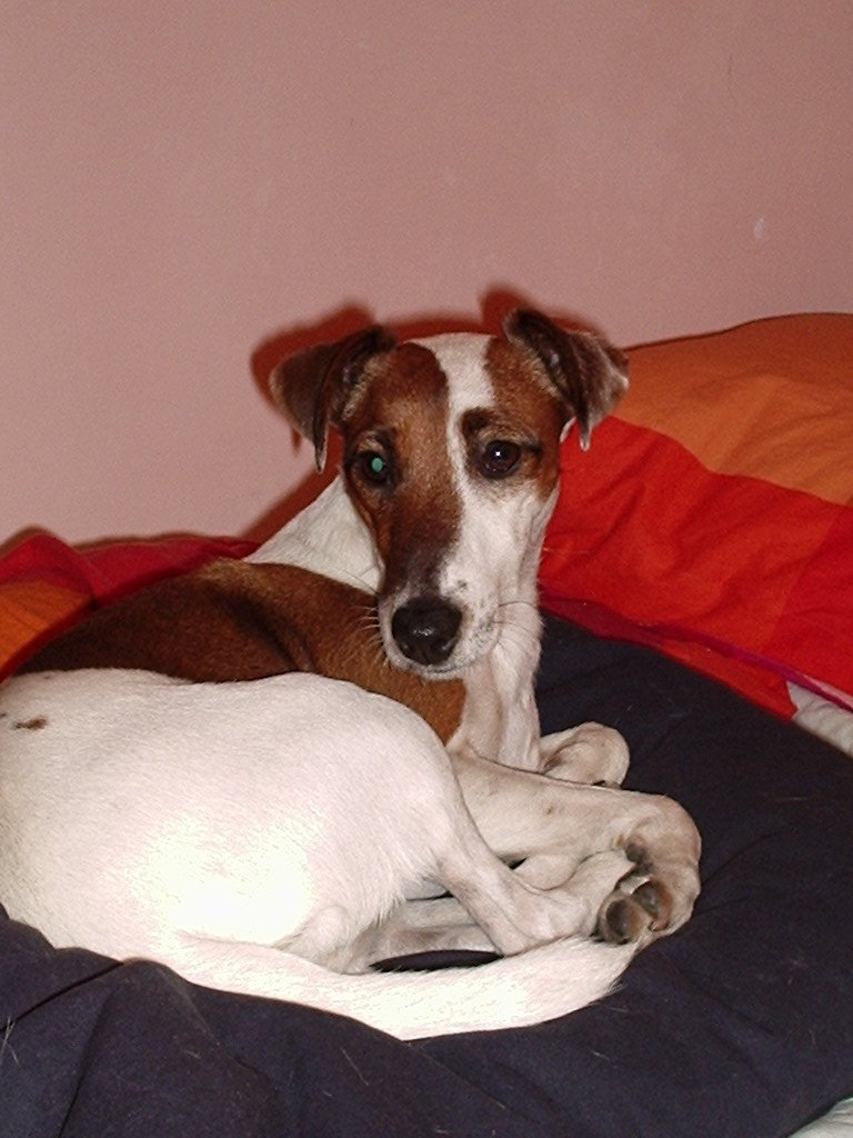 uploaded by Ohari.